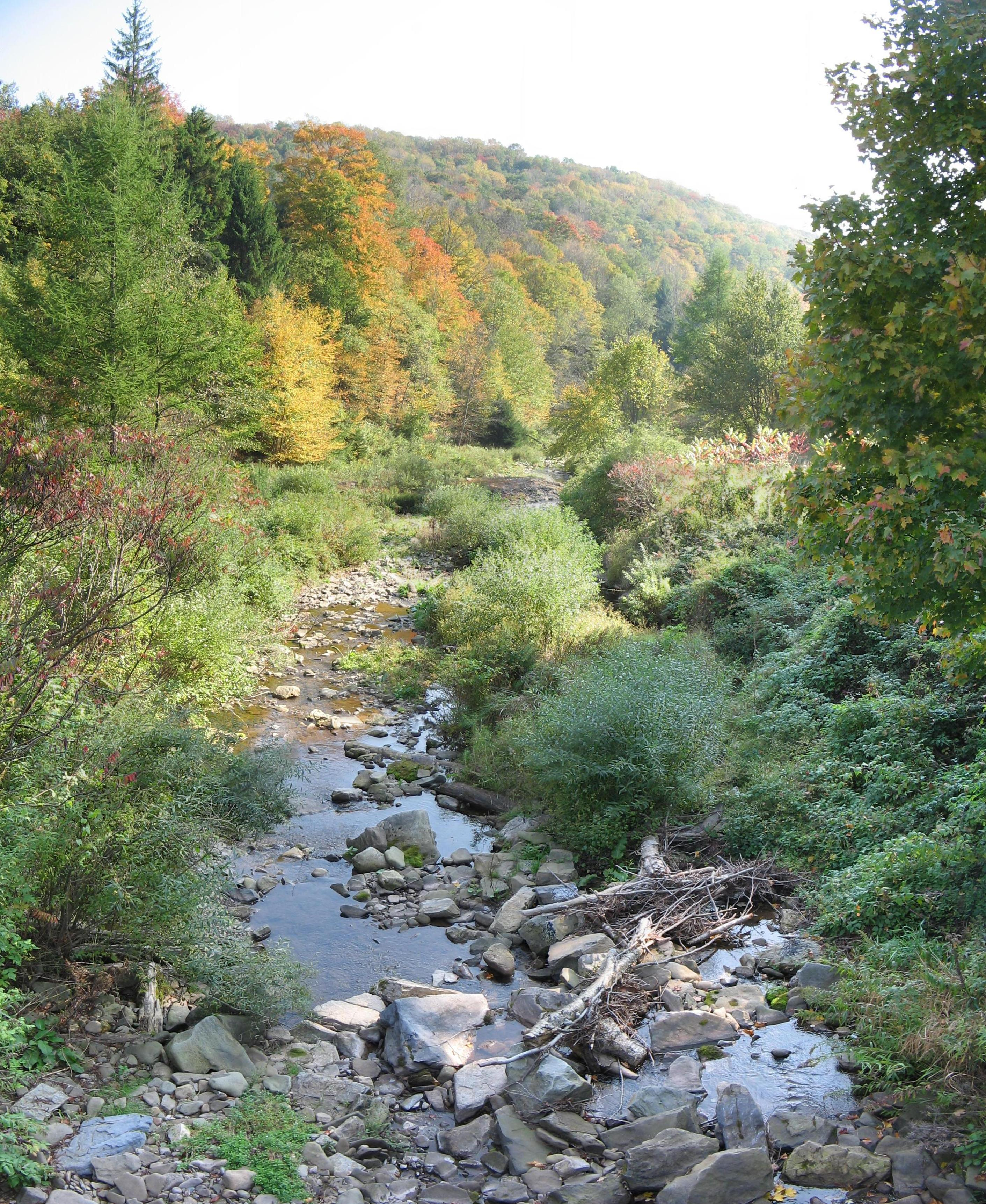 Pleasant Stream from the Old Loggers Path bridge, near Masten in Cascade and McNett Townships, Lycoming County, Pennsylvania, United States.